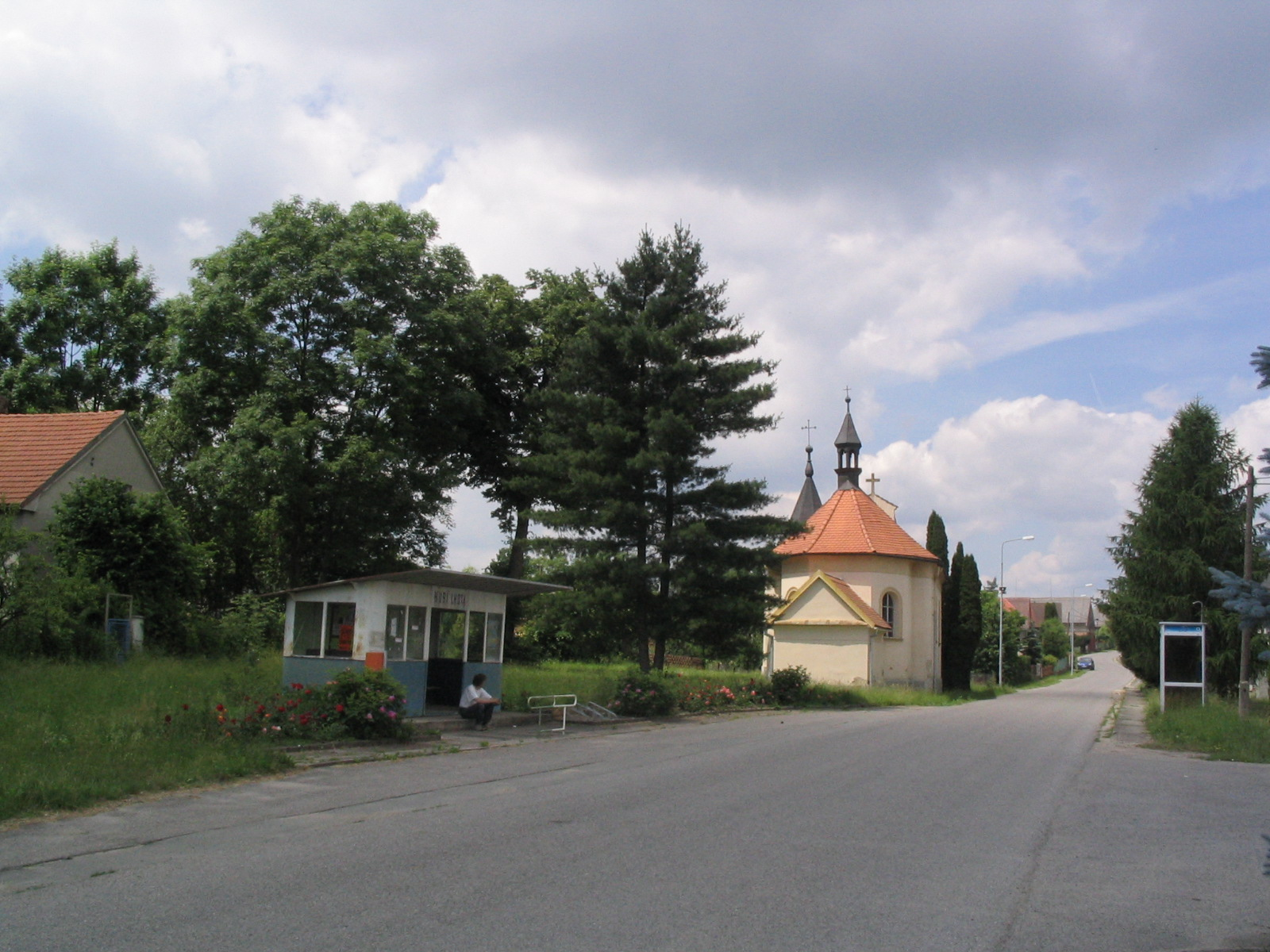 village of Husi Lhota, Czech Republic